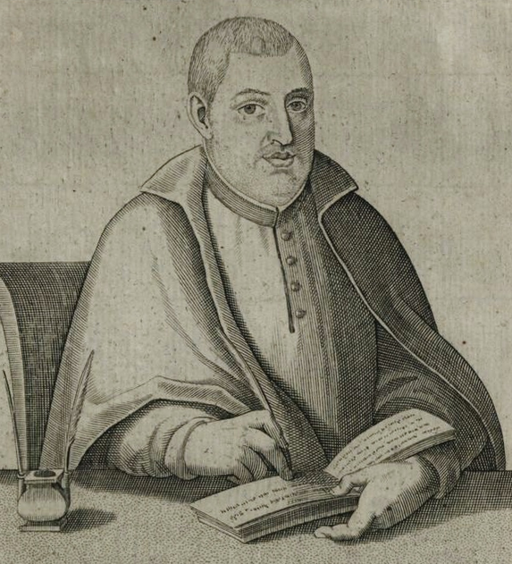 Portrait engraving of Diogo de Paiva de Andrade (1528–1575), Portuguese theologian, by Pieter Perret (1555–1639).